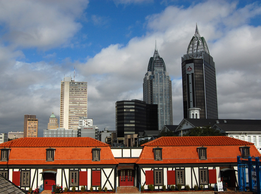 Mobile, Alabama, skyline as seen from Fort Conde.